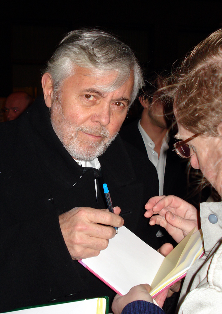 Picture of Czech actor Josef Abrhám at Český lev (movie awards).